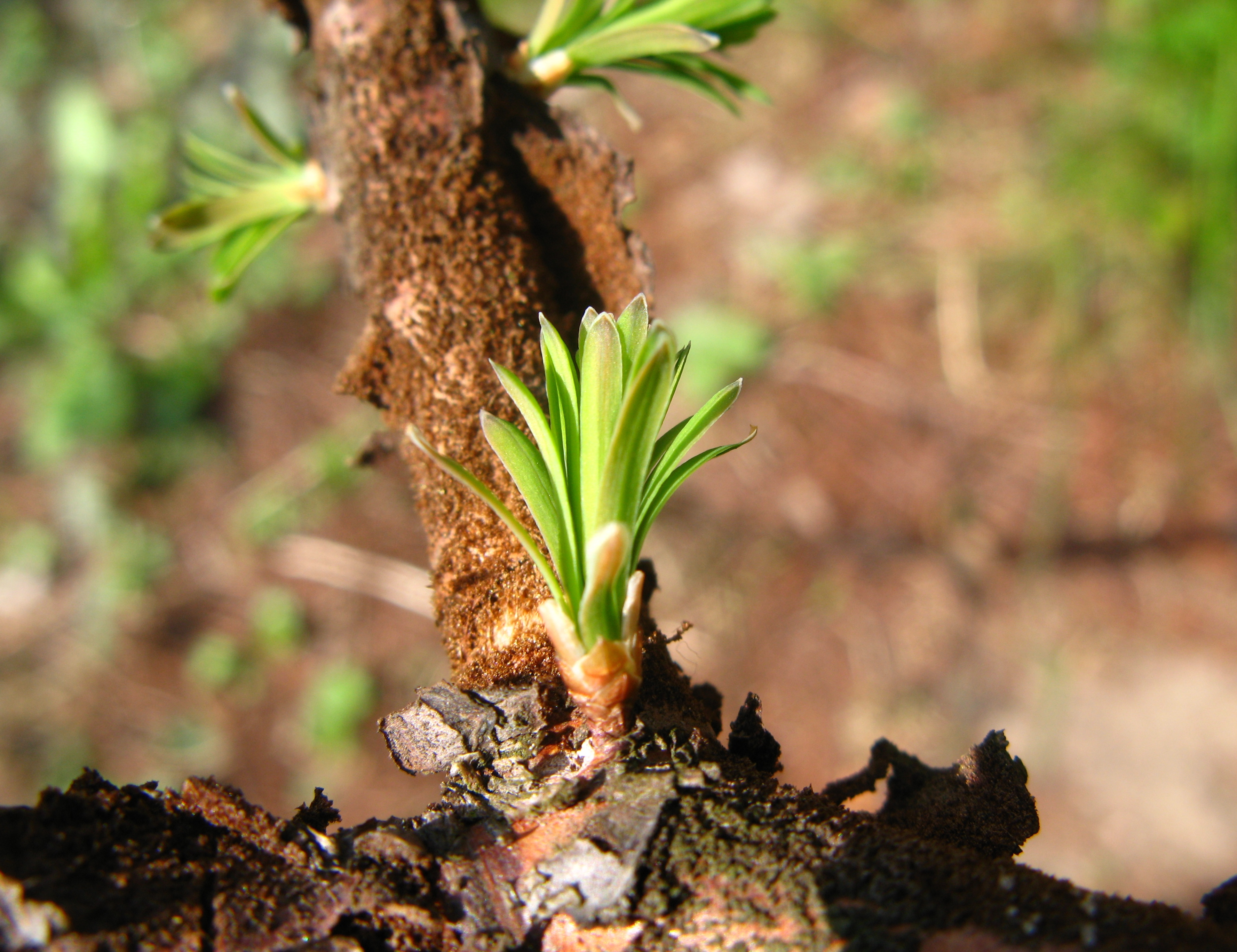 Young Metasequoia glyptostroboides leaves, Marki, Poland